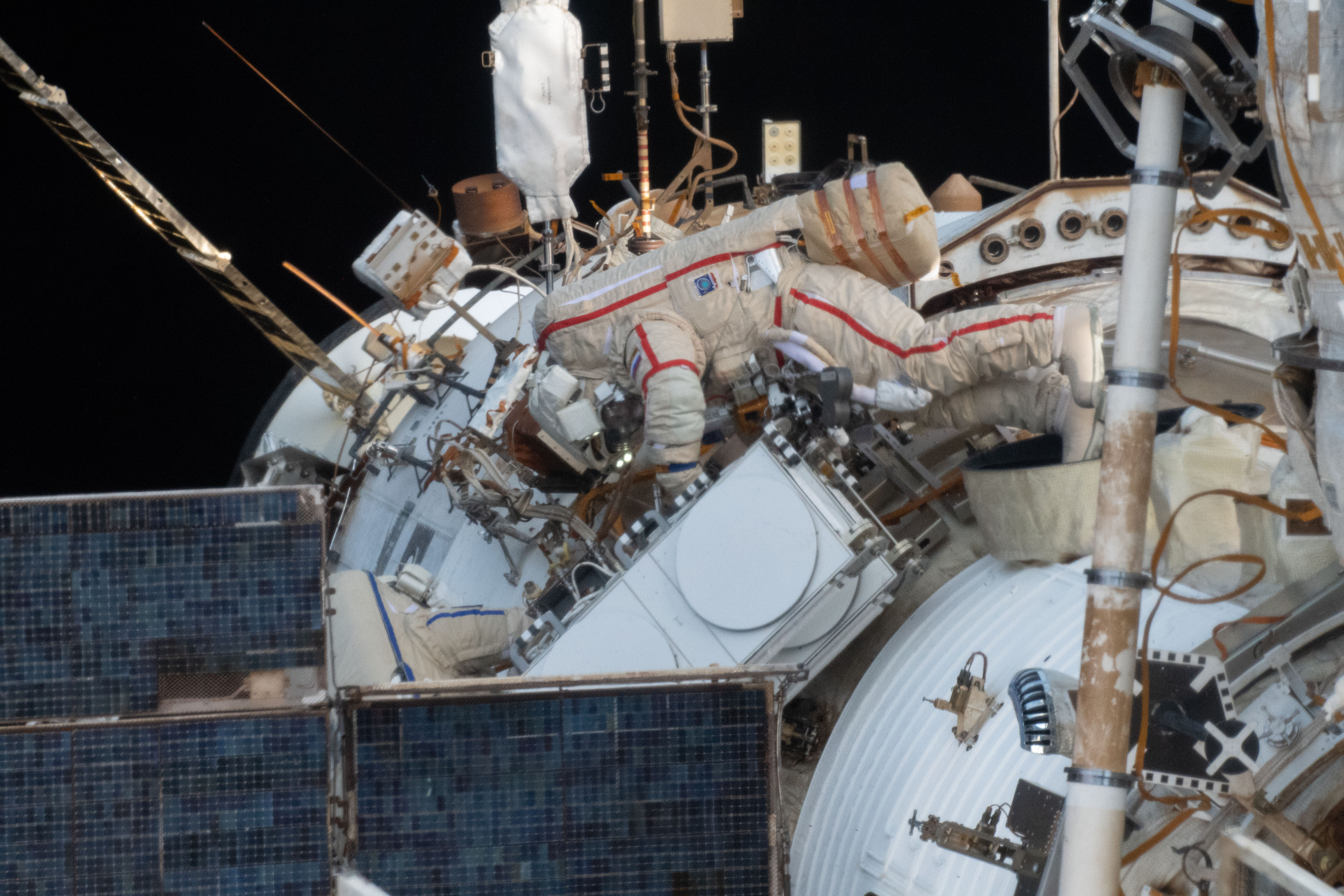 Roscosmos cosmonaut Oleg Artemyev works to install the Icarus animal-tracking experiment on the Zvezda service module during a spacewalk that lasted 7 hours 46 minutes. Fellow cosmonaut Sergey Prokopyev (out of frame) joined Artemyev during the spacewalk which also saw the deployment of four nano-satellites and the retrieval of a materials exposure experiment on the Russian segment of the International Space Station.